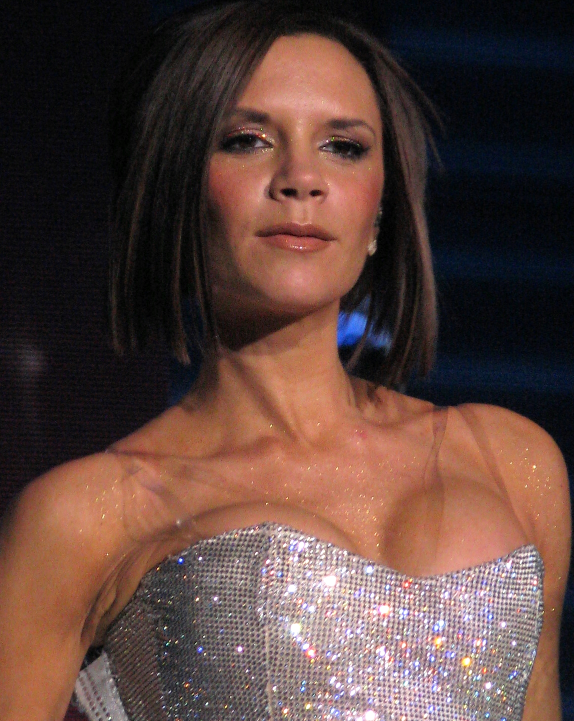 Closeup of English singer and model Victoria Beckham, in Las Vegas, United States